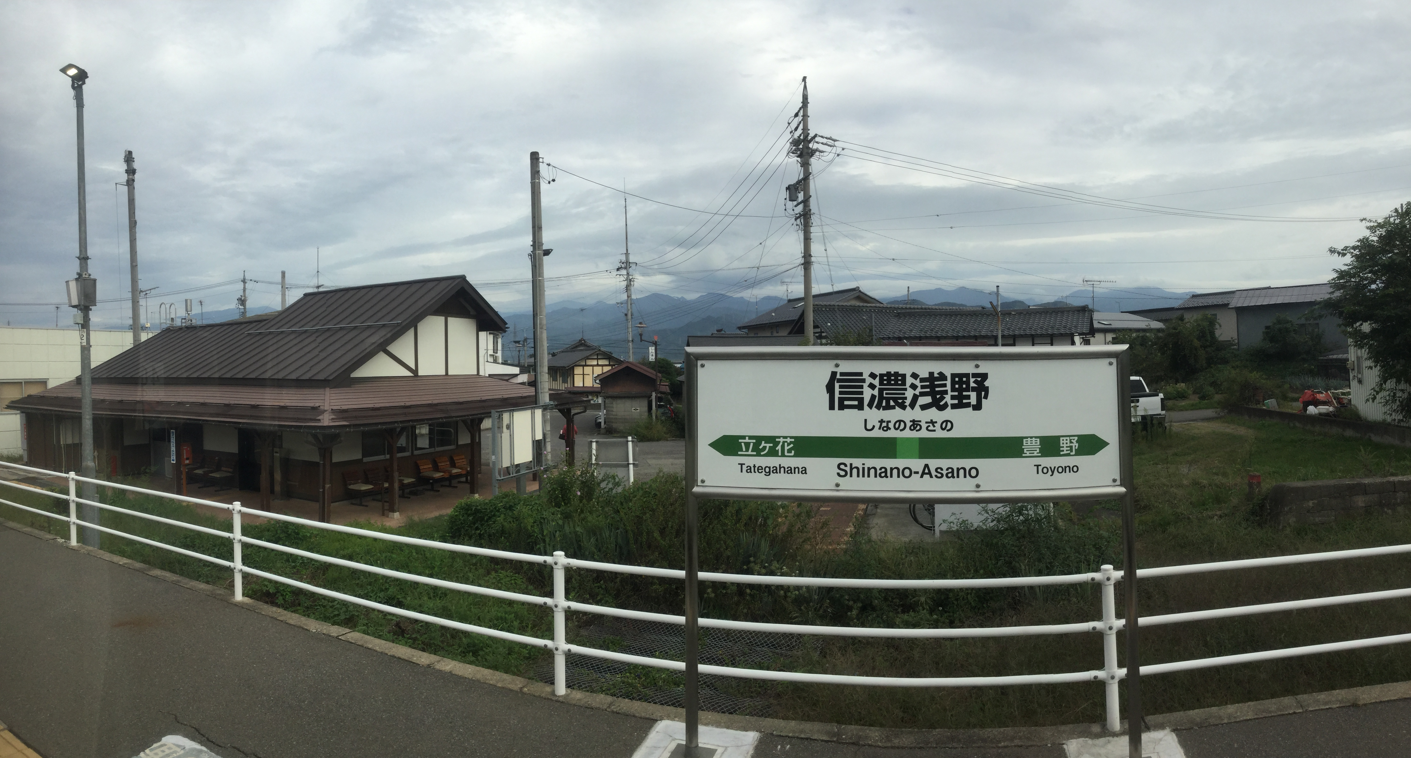 信濃浅野駅のホーム (Shinano-Asano Station platform)